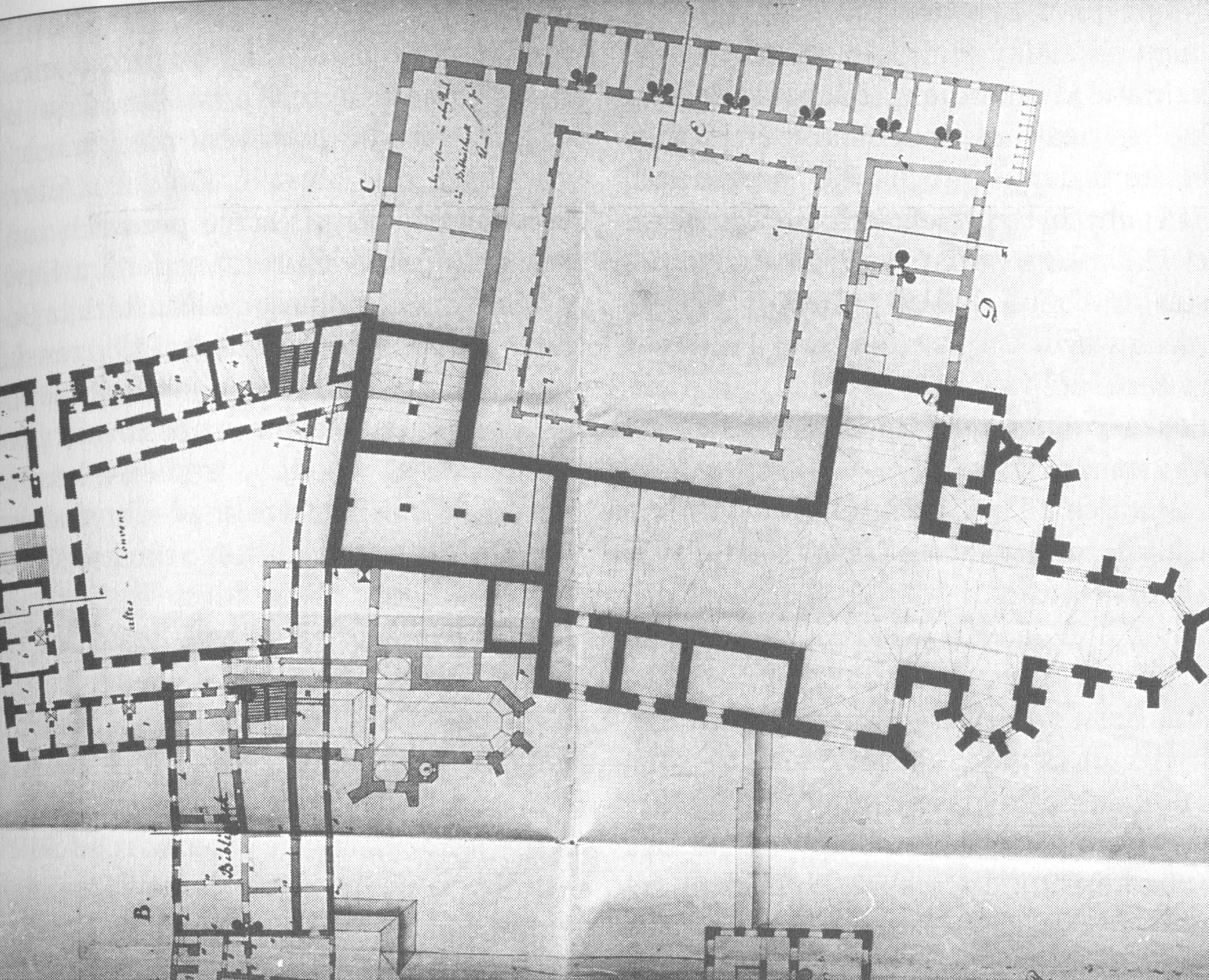 Plan and project for rebuilding of Saint Thomas's Abbey in Old Brno, Brno, Czech Republic by Jacobi von Eckholm.